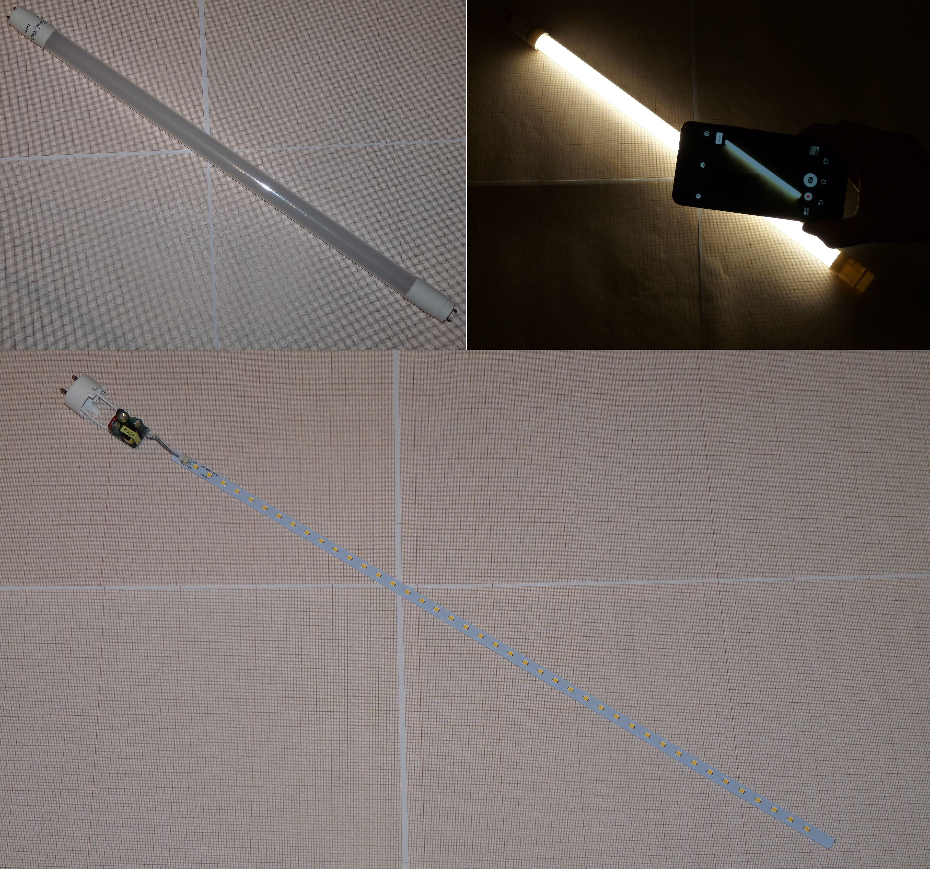 Linear LED light bulb with T8 socket